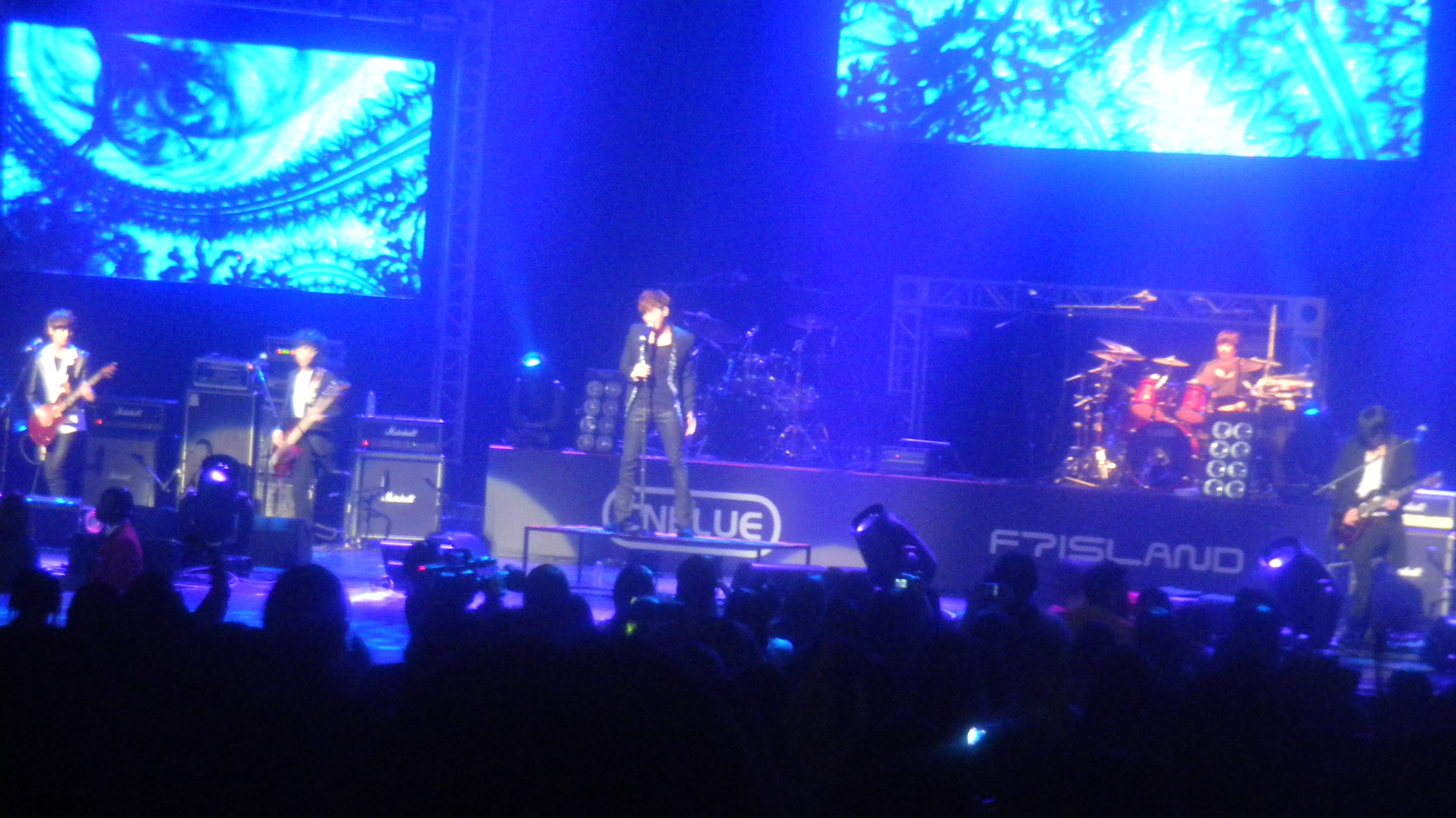 South Korean rock band F.T. Island performing at the joint Stand Up concert with CN Blue in Los Angeles, California, at Nokia Theatre L.A. Live on March 9, 2012.I originally uploaded the image at Flickr under my account DiverseMentality (this was my original username on both the English Wikipedia and Commons). I cropped the original image to focus on the subjects. There, it is also licensed under Creative Commons, Attribution and Share Alike.